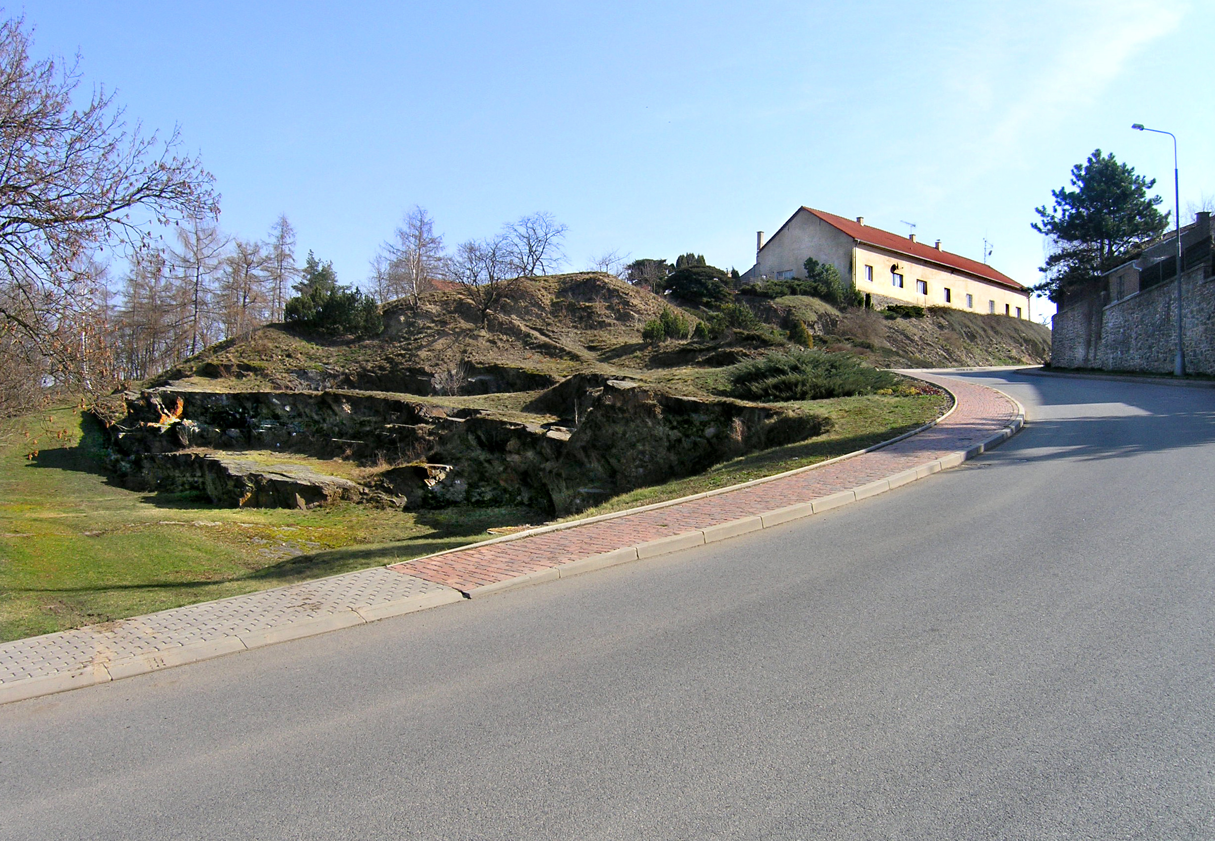 Štychova street at Křeslice, Prague